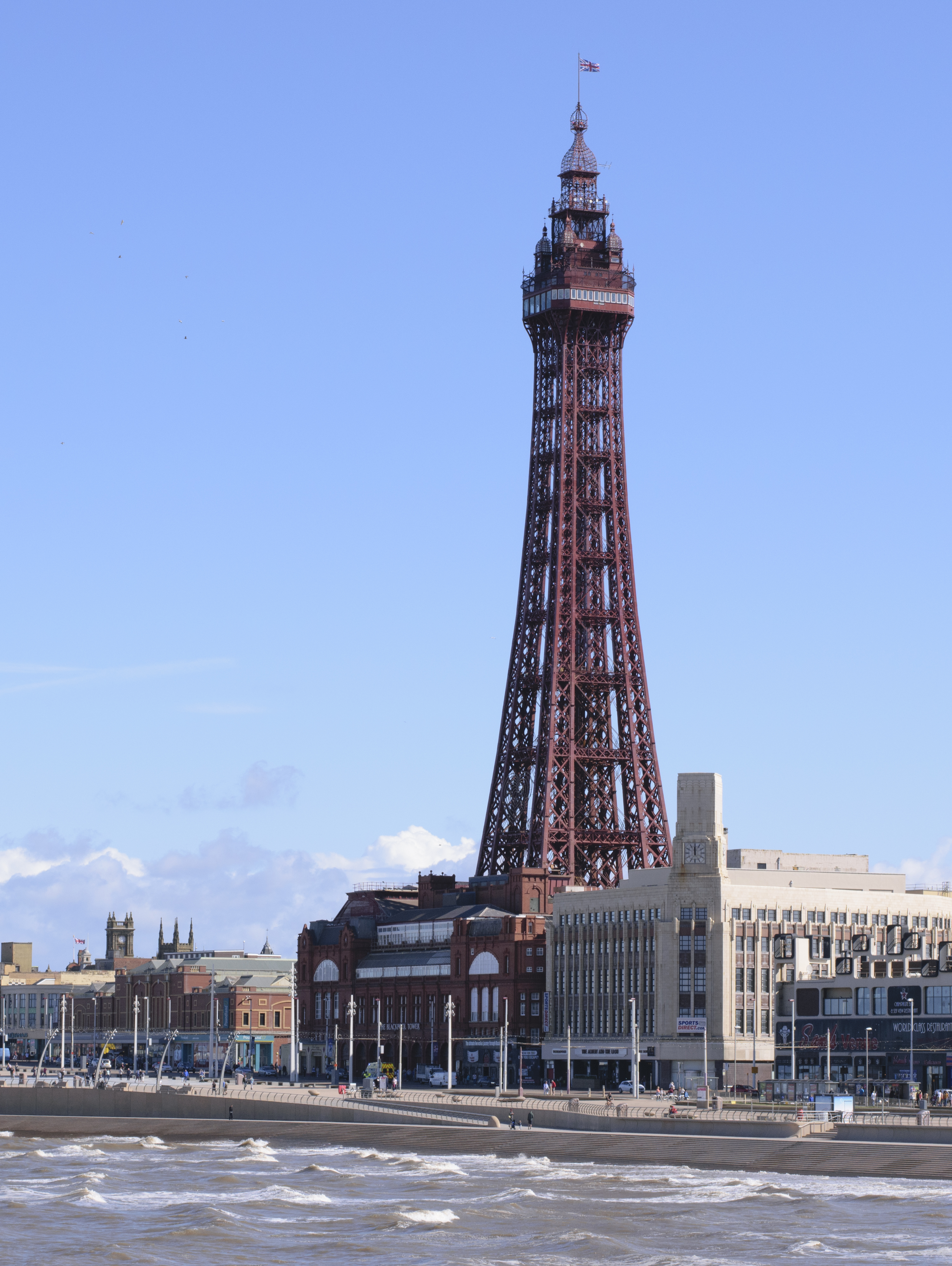 Blackpool Tower Wikidata has entry Q880905 with data related to this item.